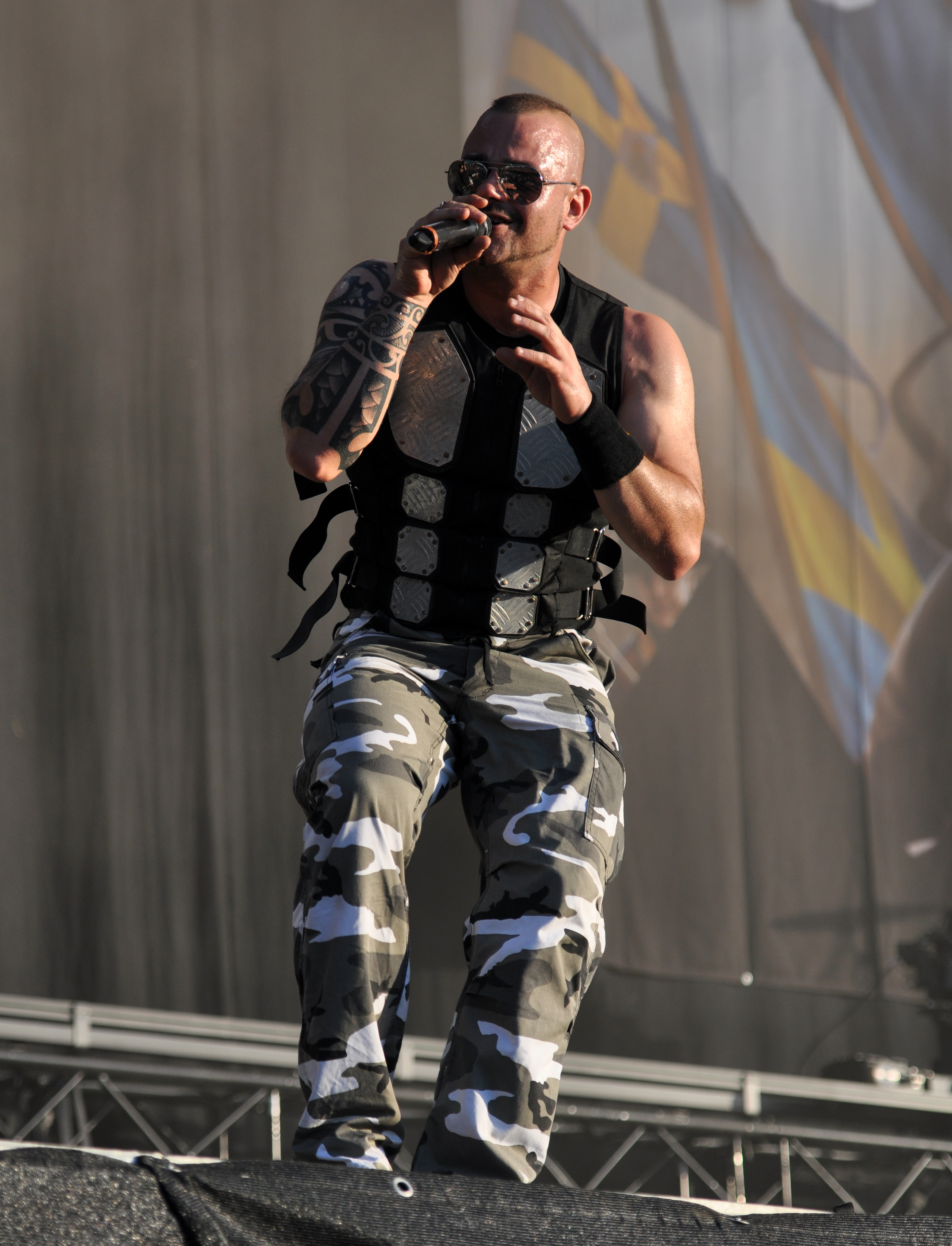 Sabaton at Wacken Open Air 2013